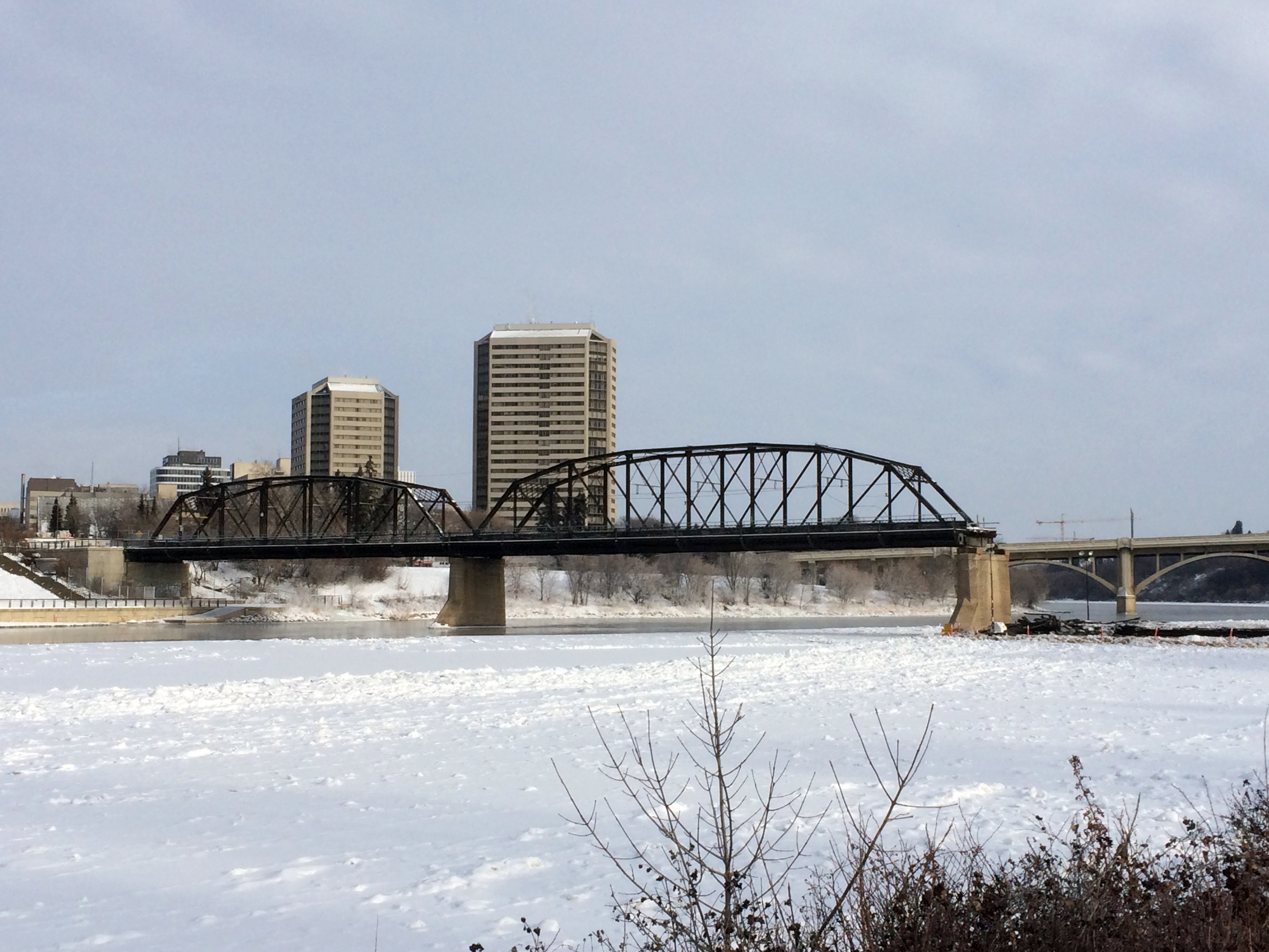 The partially demolished Traffic Bridge in Saskatoon, Saskatchewan, Canada as of January 2016. Three of the five spans at this time had been demolished, with two left in place.